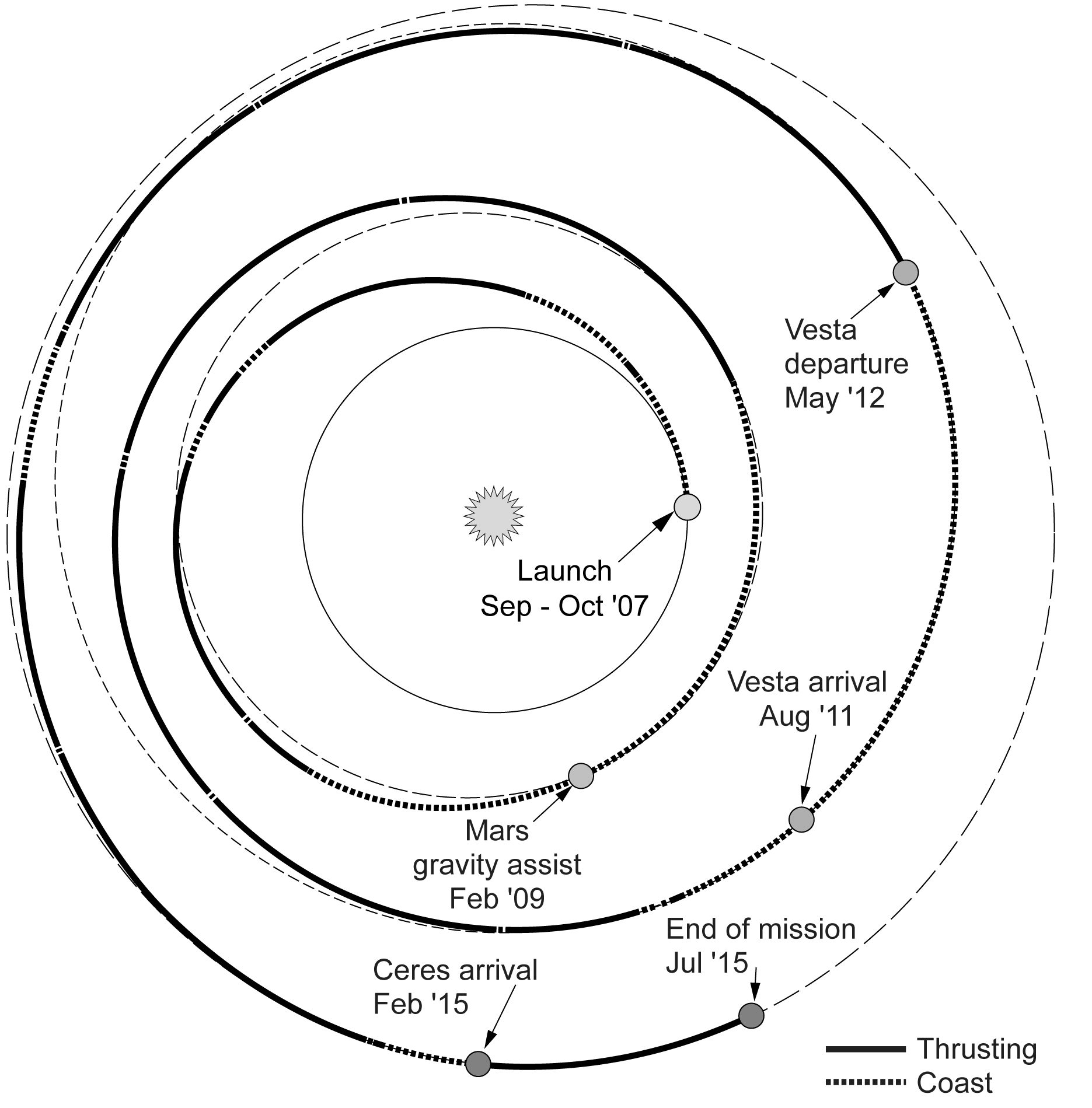 Trajectory of the Dawn space probe as of September 2007.